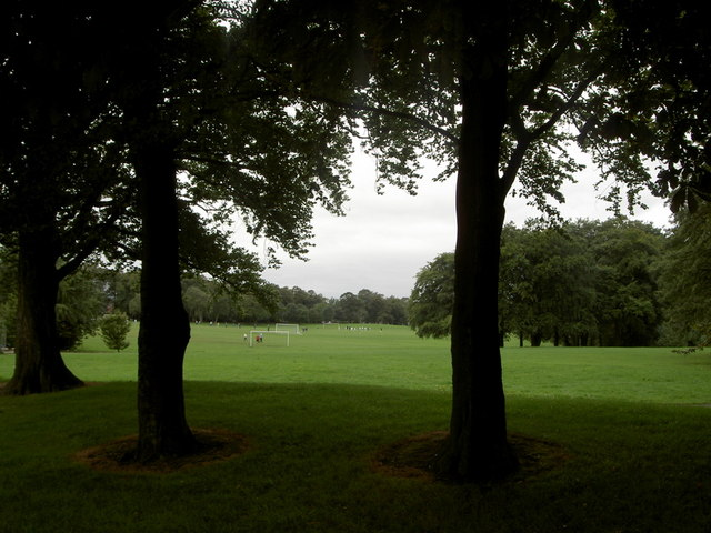 Moor Park, Preston. From the stadium looking across into the park. Moor Park has some claim to be the first municipal park in Britain. (Part of a circular walk around Preston - continues at 557619.)